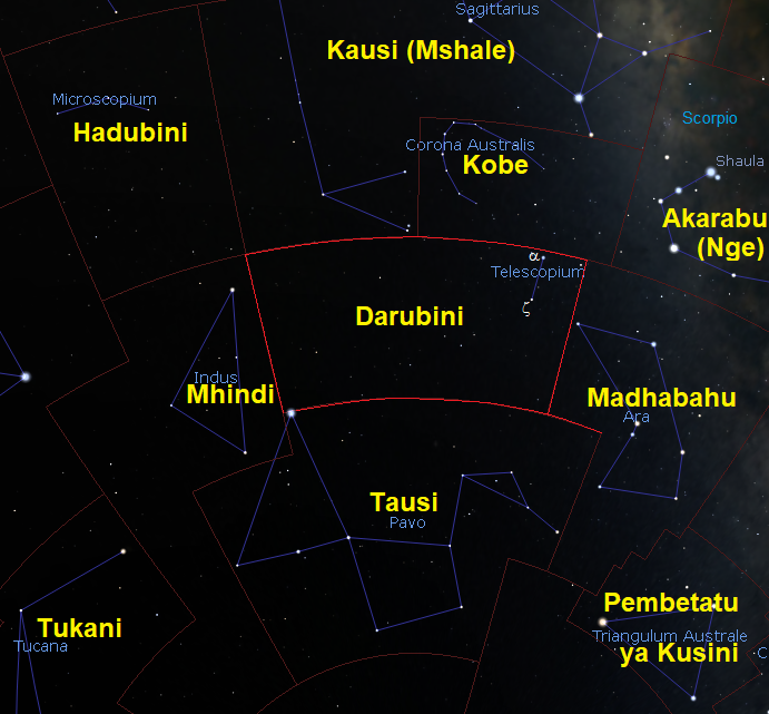 Constellation Telescopium as seen from Tanzania, Swahili labelled Kiswahili: Kundinyota Darubini (Telescopium) jinsi inavyoonekana kutoka Tanzania, majina kwa Kiswahili